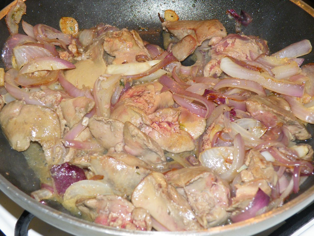 Frying liver in a pan